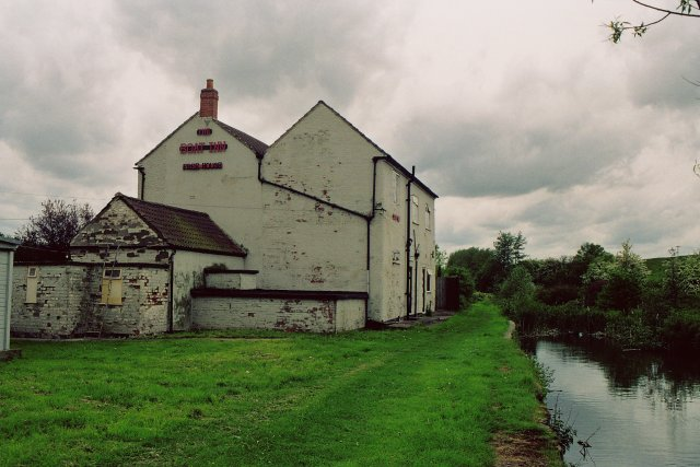 Pinxton Wharf in Derbyshire. Not just another pub geograph! Pinxton Wharf is the northern terminus of the Cromford Canal LinkExternal link , which opened up local coalfields and Pinxton porcelain to a wide market via the Erewash Canal. From here, an early railway (the Mansfield and Pinxton) was opened in 1819 to connect Mansfield with the canal system. Tickets to travel on the horse drawn line could be bought at the Boat Inn. OSGB36: geotagged! SK 45 54 [1000m precision] WGS84: 53:5.1472N 1:19.3280W